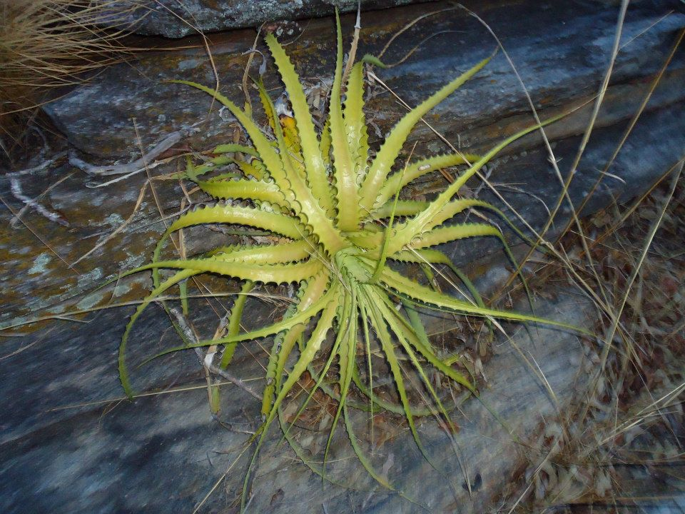 Bromeliaceae in the Salgado River's Canyon